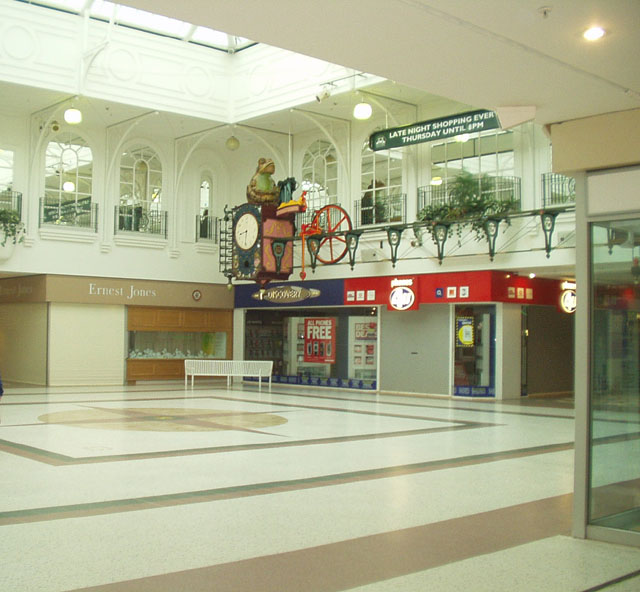 Sherwood Square in Telford Shopping Centre, early on a Sunday morning.